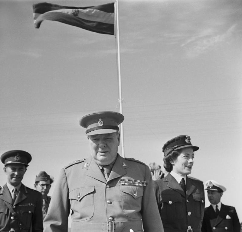 Winston Churchill visiting the his old regiment during the Cairo Conference, Egypt, wearing the uniform of a colonel of the 4th Queen's Own Hussars. He is accompanied by his daughter Sarah Churchill and Lieutenant General Stone. The regimental flag flies above.